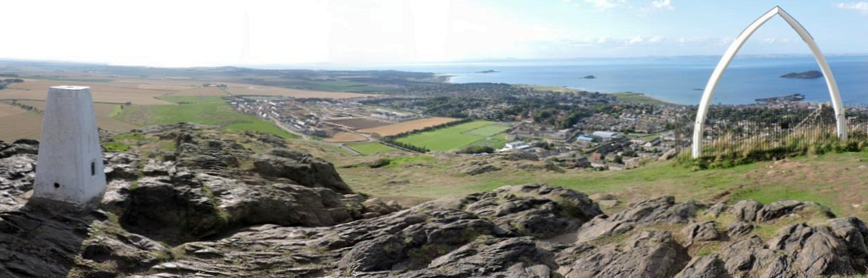 North Berwick Law : panorama